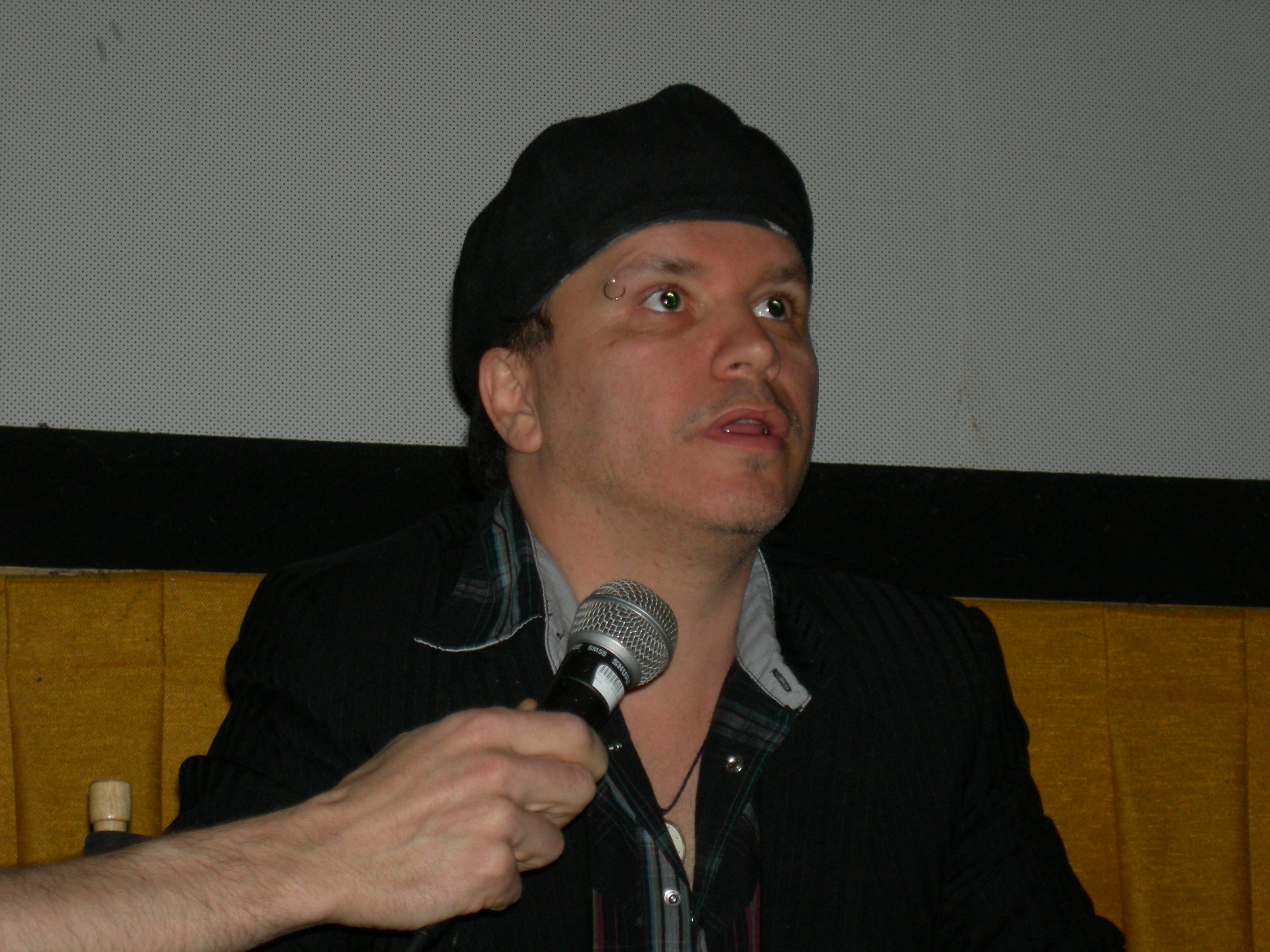 French film director Olivier Dahan, photographed at the Neptune Theater during the 2007 Seattle International Film Festival, after a showing of his film about Edith Piaf, La Vie En Rose.